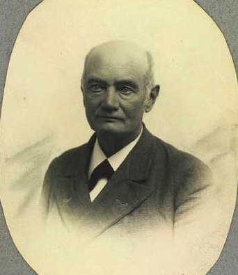 Holger Christian Begtrup (1859-1937), Danish theologian and educator